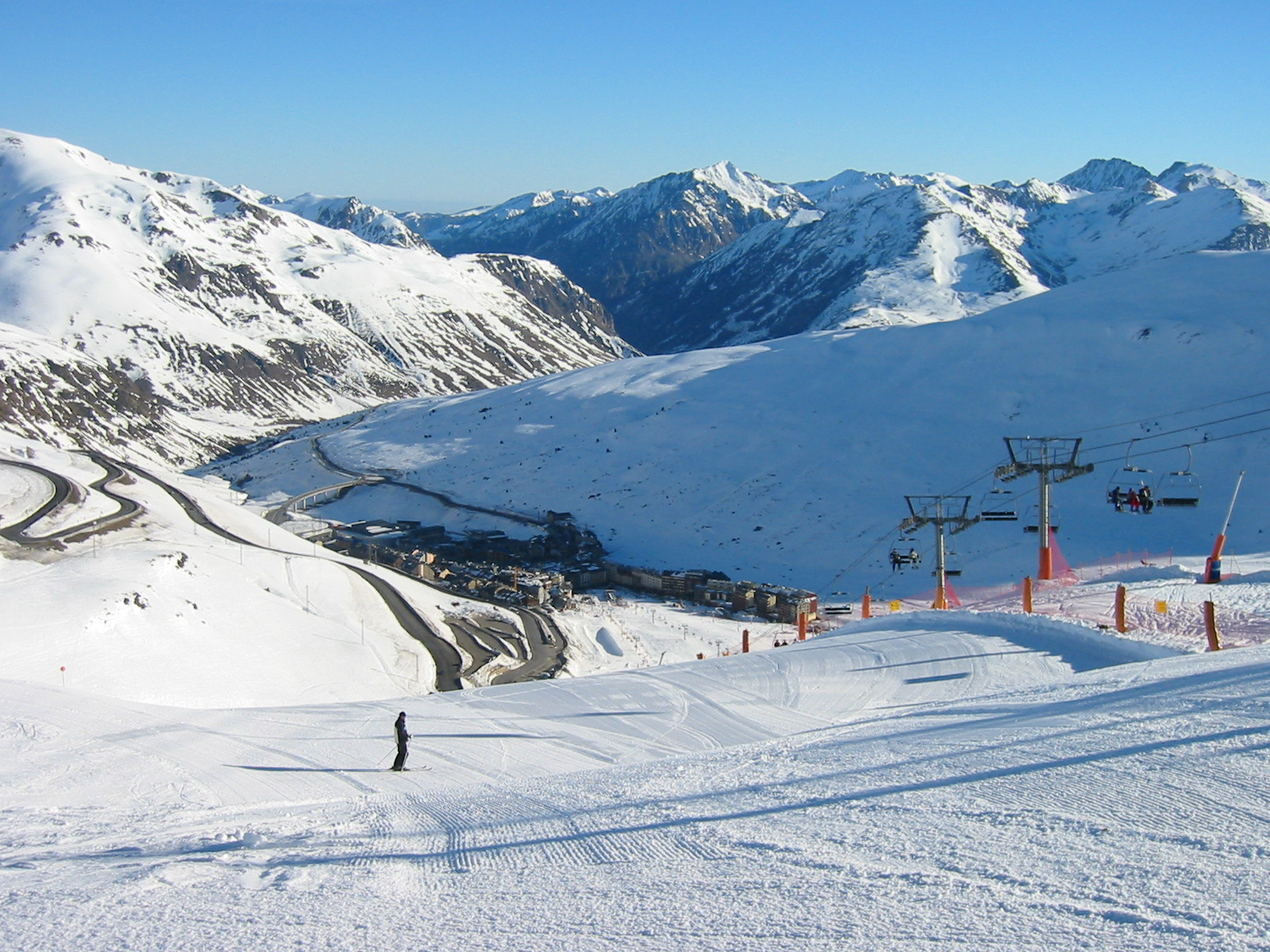 View of Pas de la Casa pass (2408m) and ski resort (2100m) from the top of FIS run, Andorra. In the background is France. Taken by wurzeller on 13 Feb 2004 and hereby released into public domain.